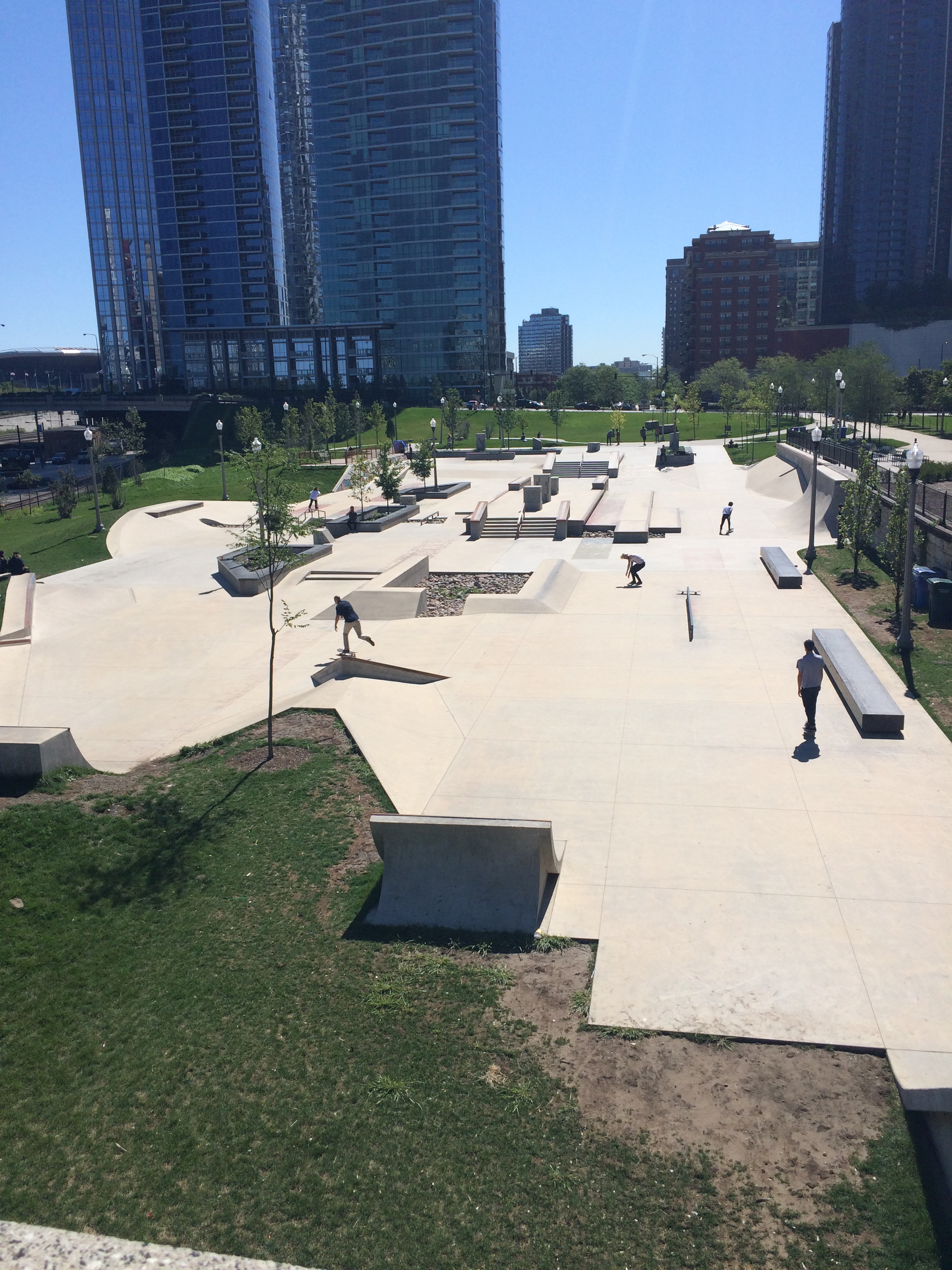 shot from the walkway over the train tracks